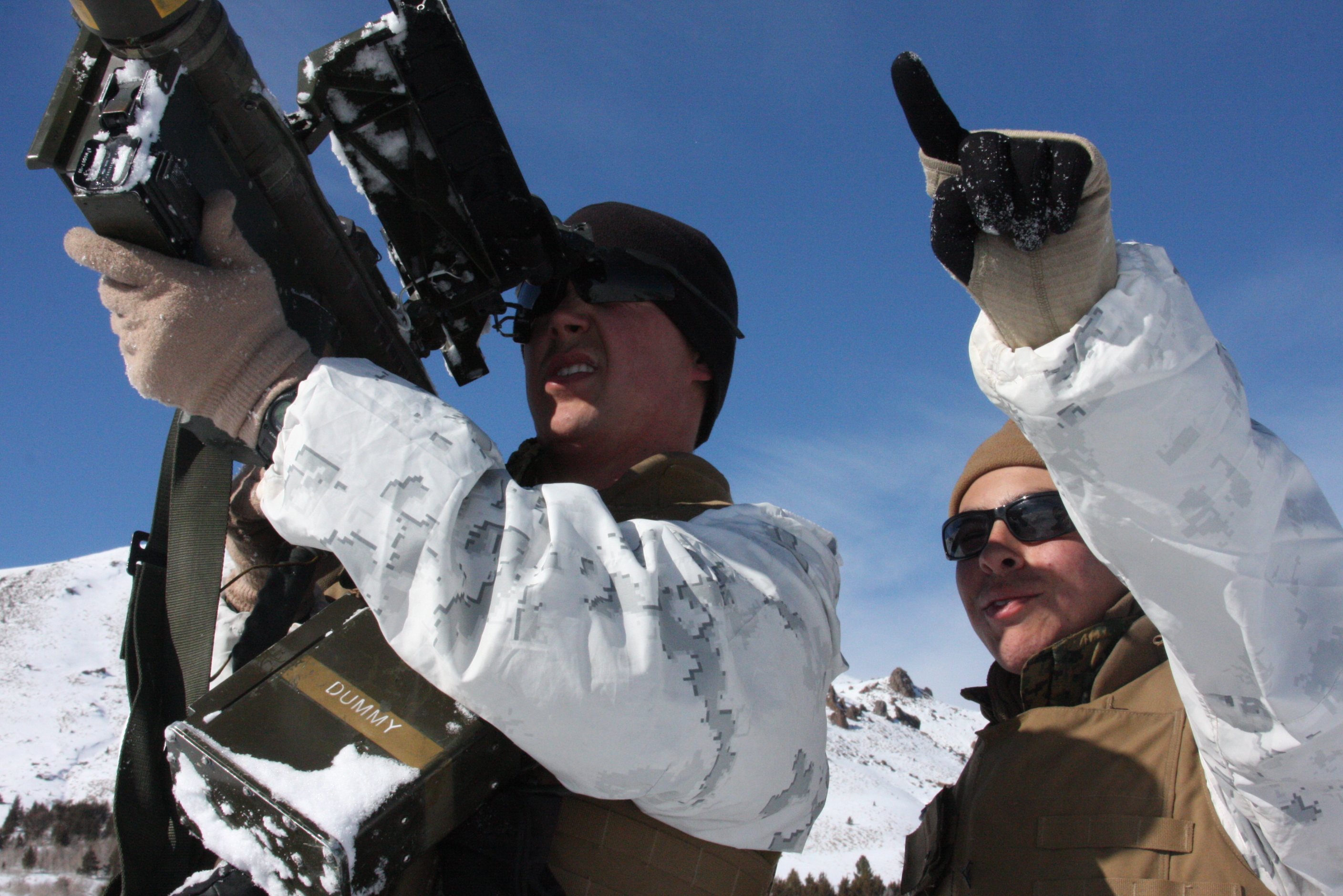 Lance Cpl. Robert L. Couret, a low-altitude air defense gunner with Battery B, 3rd Low Altitude Air Defense Battalion out of Marine Corps Base Camp Pendleton, Calif., aims at a notional aviation target while fellow gunner Lance Cpl. David M. Ogle directs him during an exercise at training area Falcon at Marine Corps Mountain Warfare Training Center Bridgeport, Calif., Feb. 12.